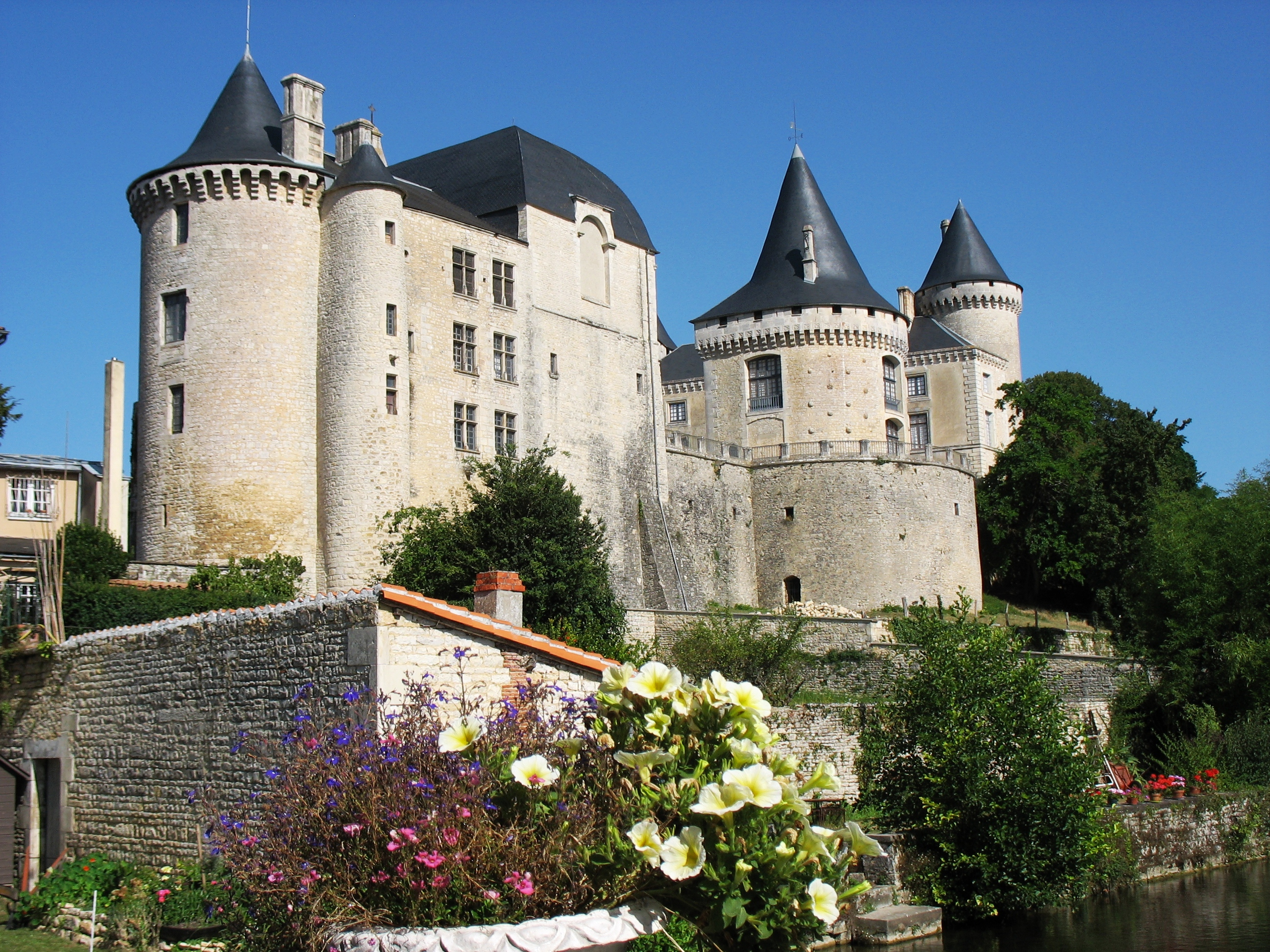 Chateau Verteuil in Verteuil-sur-Charante - residence of de La Rochefoucauld in Poitou-Charentes, France